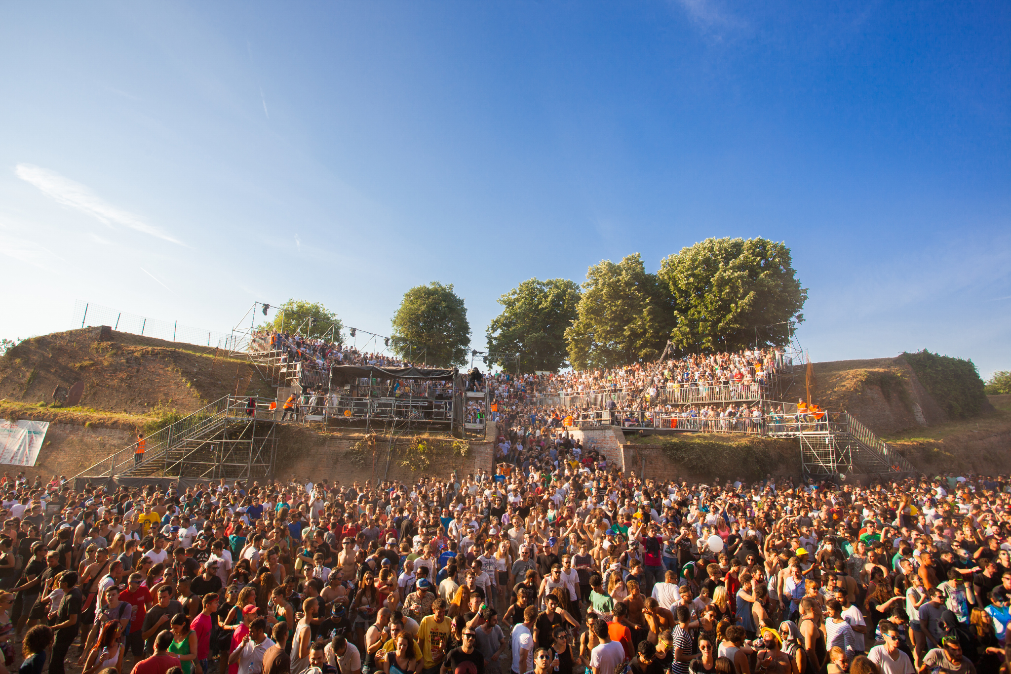 Morning, Dance Arena, EXIT Festival 2015.